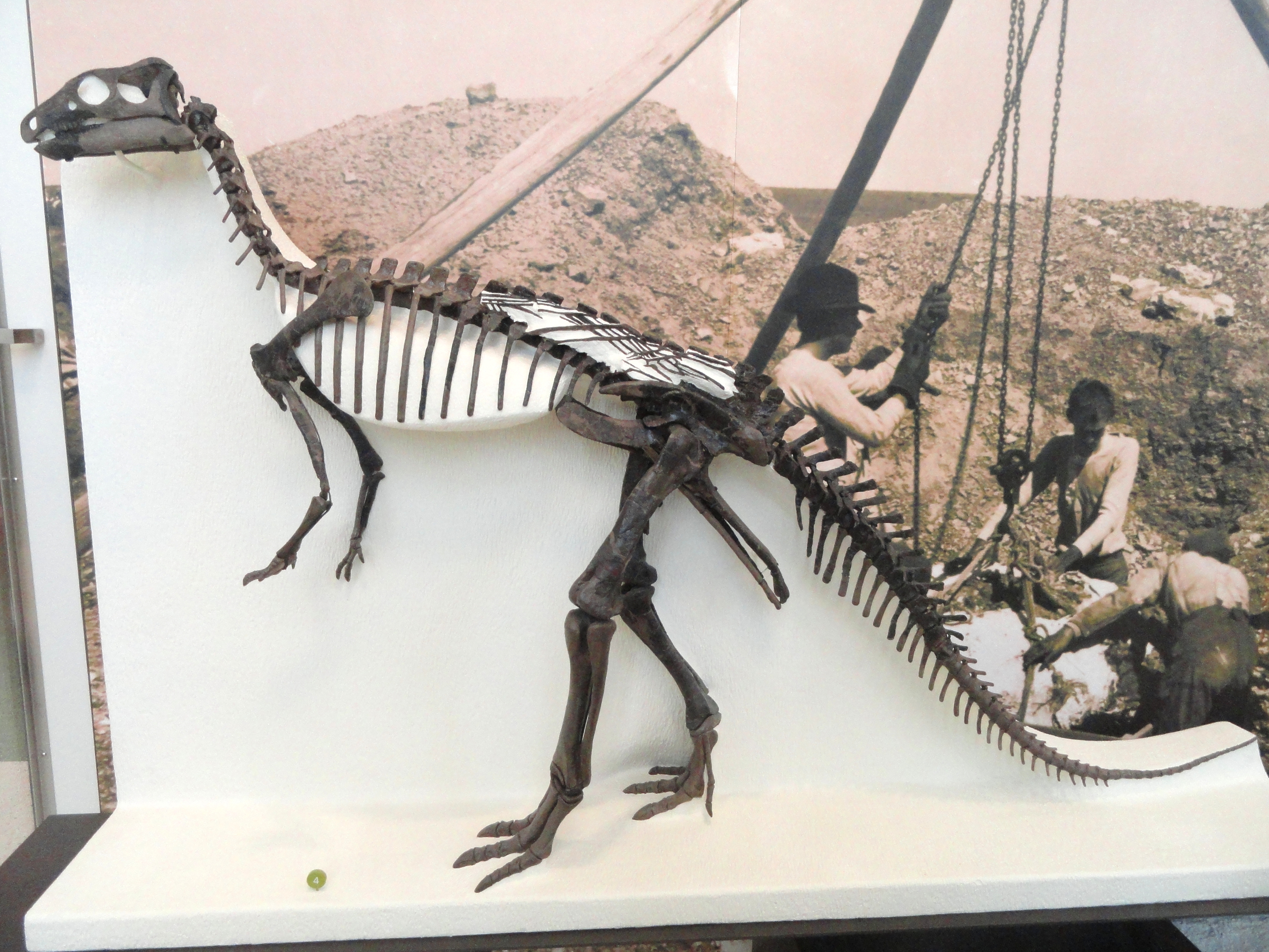 Exhibit in the fossil collection of the American Museum of Natural History, Manhattan, New York City, New York, USA.